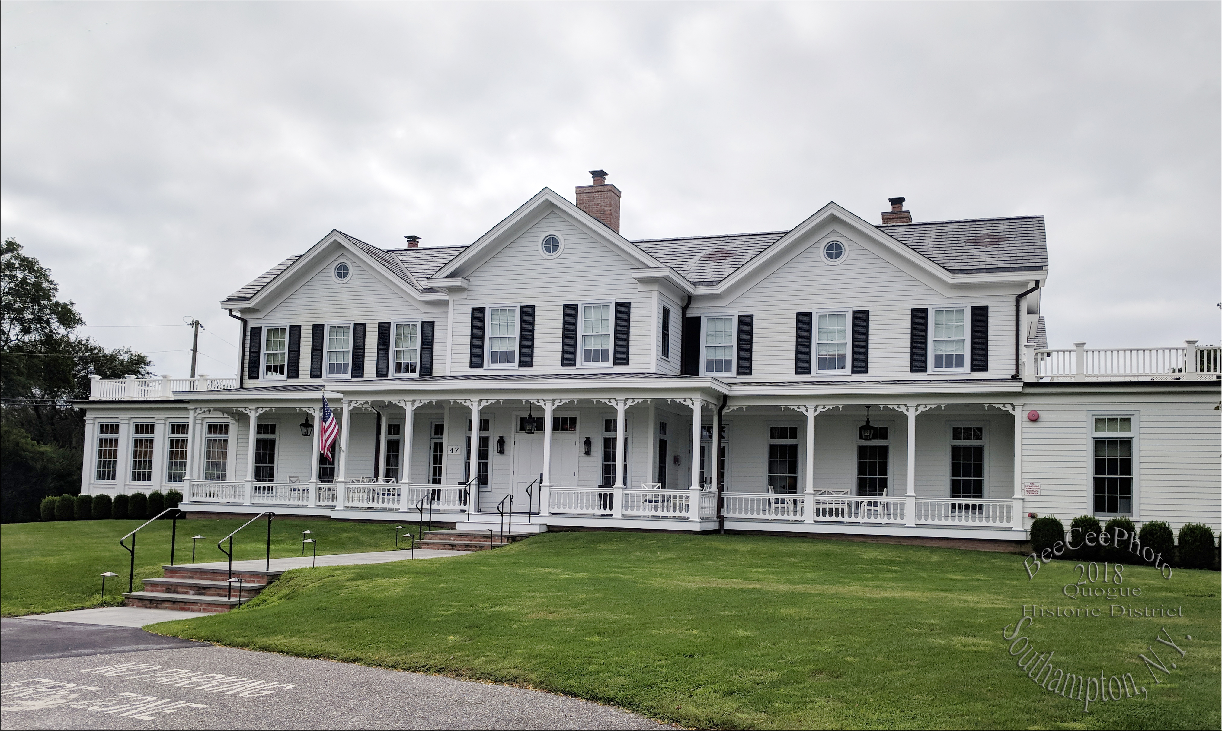 Quogue Historic District. The landmark rooming house just behind was demolished.